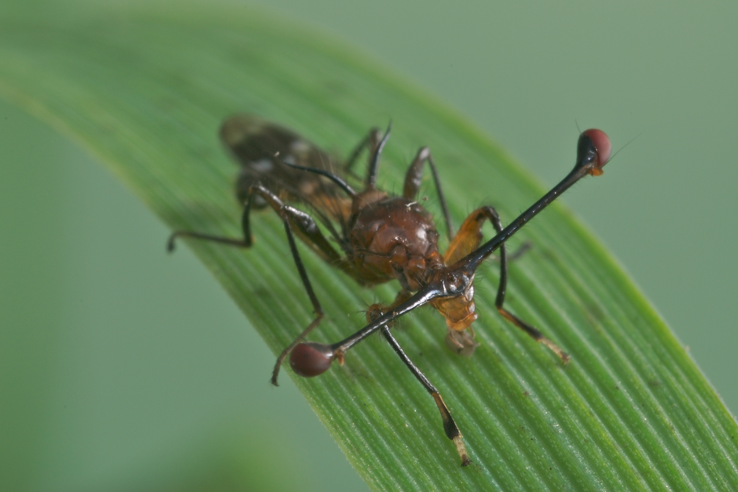 Photo of a male stalk-eyed fly of the species Teleopsis dalmanni Taken with a Nikon D80, Sigma f2.8 EX DG 105mm macro lens and Kenko extension tubes, plus onboard flash and remotely fired SB-600